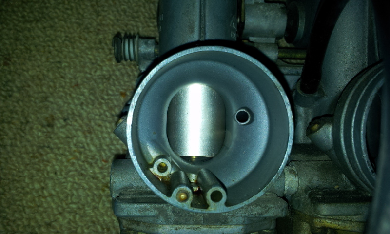 Suzuki Katana SXZ Mikuni VM Carb detail